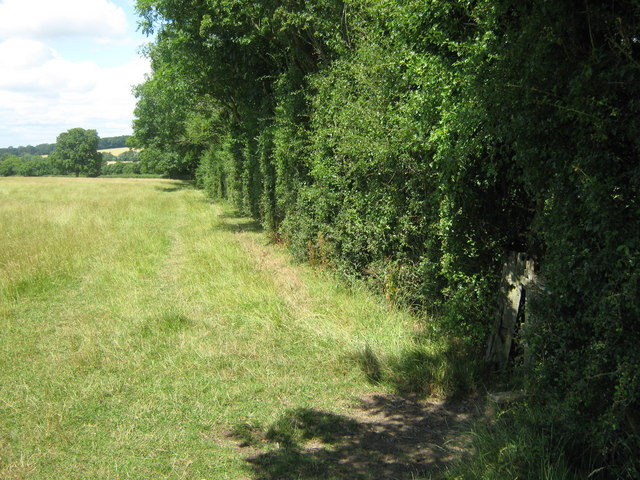 Footpath junction near Parsonage Farm A footpath from Frittenden Road, Frittenden leads along the hedge in a large cow field to lead to Leggs Wood. Another path heads over stile on hedge (on the right) leading to Mill Lane,near Cherry Tree Farm.